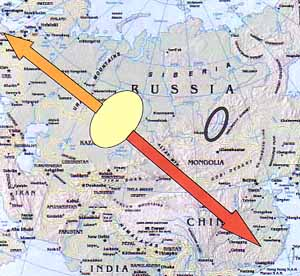 Original description:"Reverse migration, modification of existing Asia image")